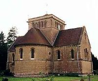 A photograph of Holy Trinity Church in Dilton Marsh, Wiltshire, England taken by User:Garzo on 20 March 2002.